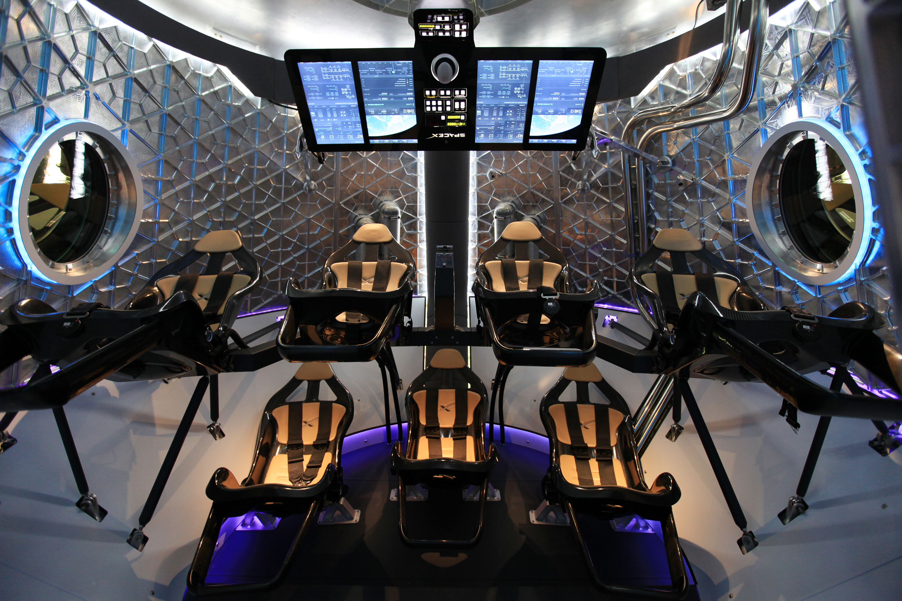 HAWTHORNE, Calif. - A look through the open hatch of the Dragon V2 reveals the layout and interior of the seven-crew capacity spacecraft. SpaceX unveiled the new spacecraft during a ceremony at its headquarters in Hawthorne, Calif. The Dragon V2 is designed to carry people into Earth's orbit and was developed in partnership with NASA's Commercial Crew Program under the Commercial Crew Integrated Capability agreement. SpaceX is one of NASA's commercial partners working to develop a new generation of U.S. spacecraft and rockets capable of transporting humans to and from Earth's orbit from American soil. Ultimately, NASA intends to use such commercial systems to fly U.S. astronauts to and from the International Space Station.